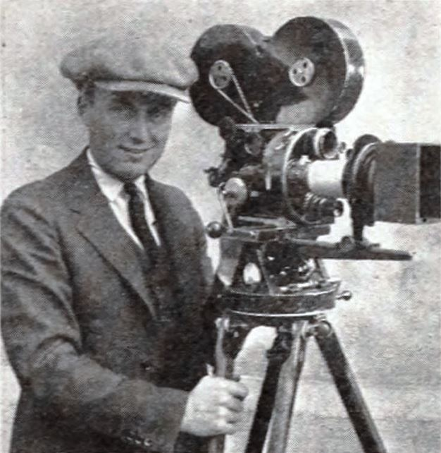 Cinematographer Byron Conrad Haskin, on page 33 of the June 17, 1922 Exhibitors Herald. He joined in filming the American adventure film Hurricane's Gal (1922). He later became a film director.